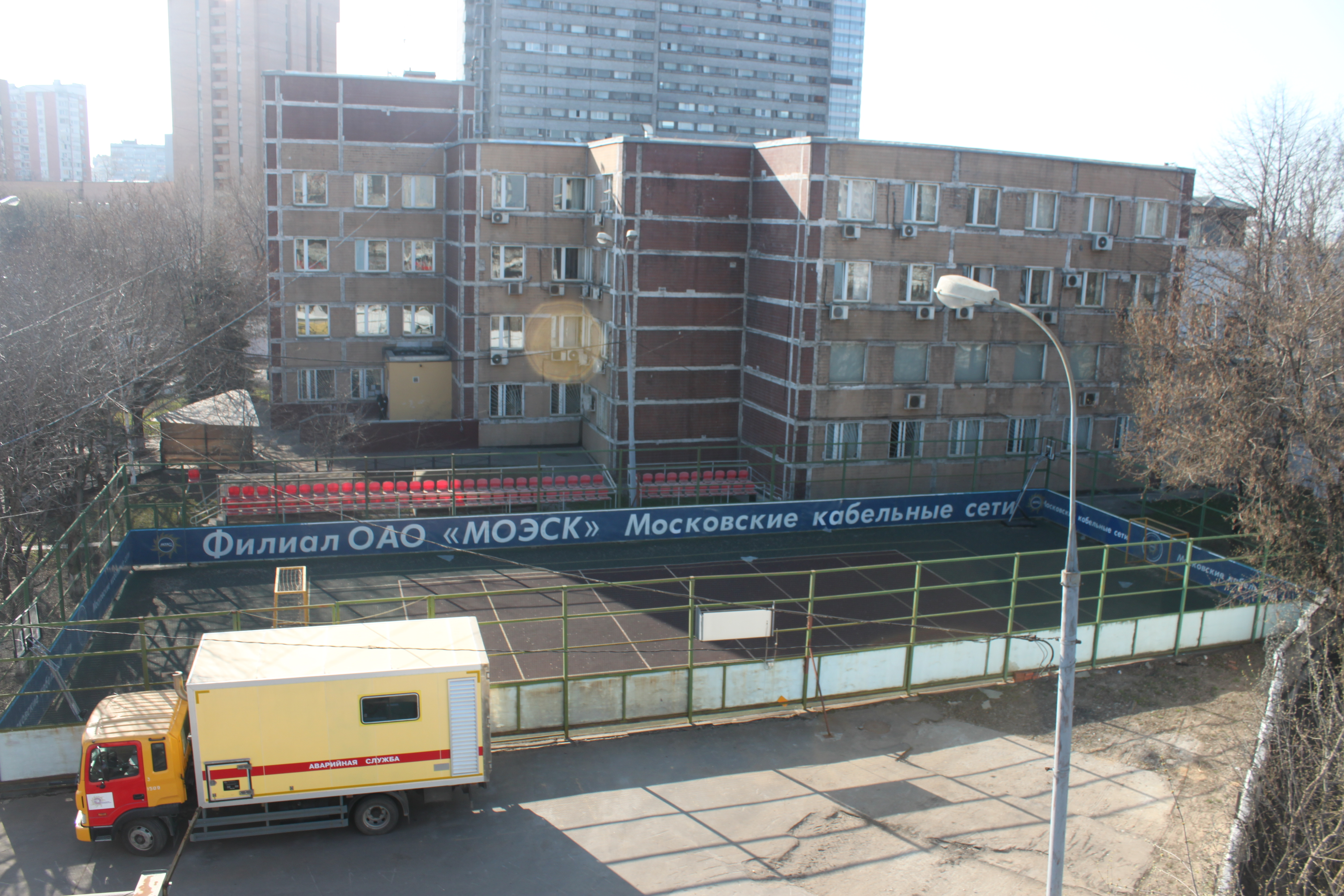 International Middle Lane